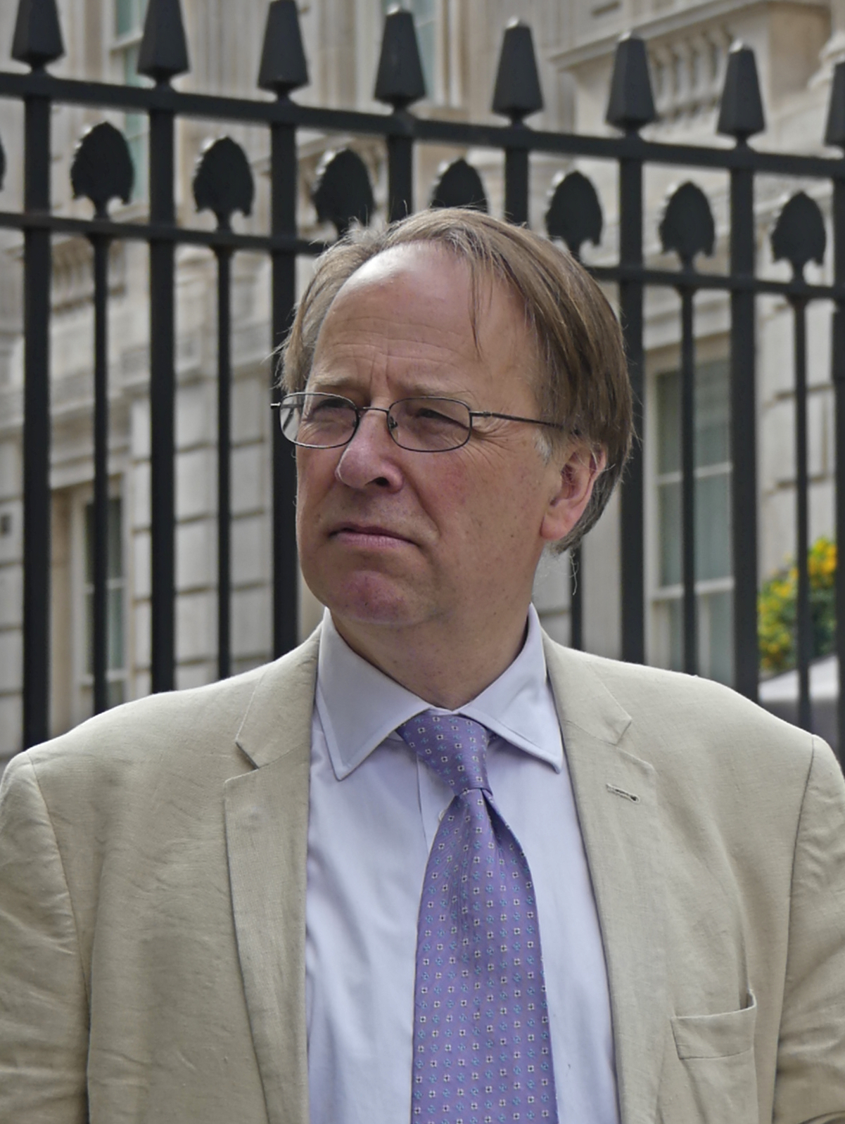 A picture of Michael on 14 May 2018 as he was telling a story in front of the Downing Street gates. Taken by Shayan Barjesteh van Waalwijk van Doorn.